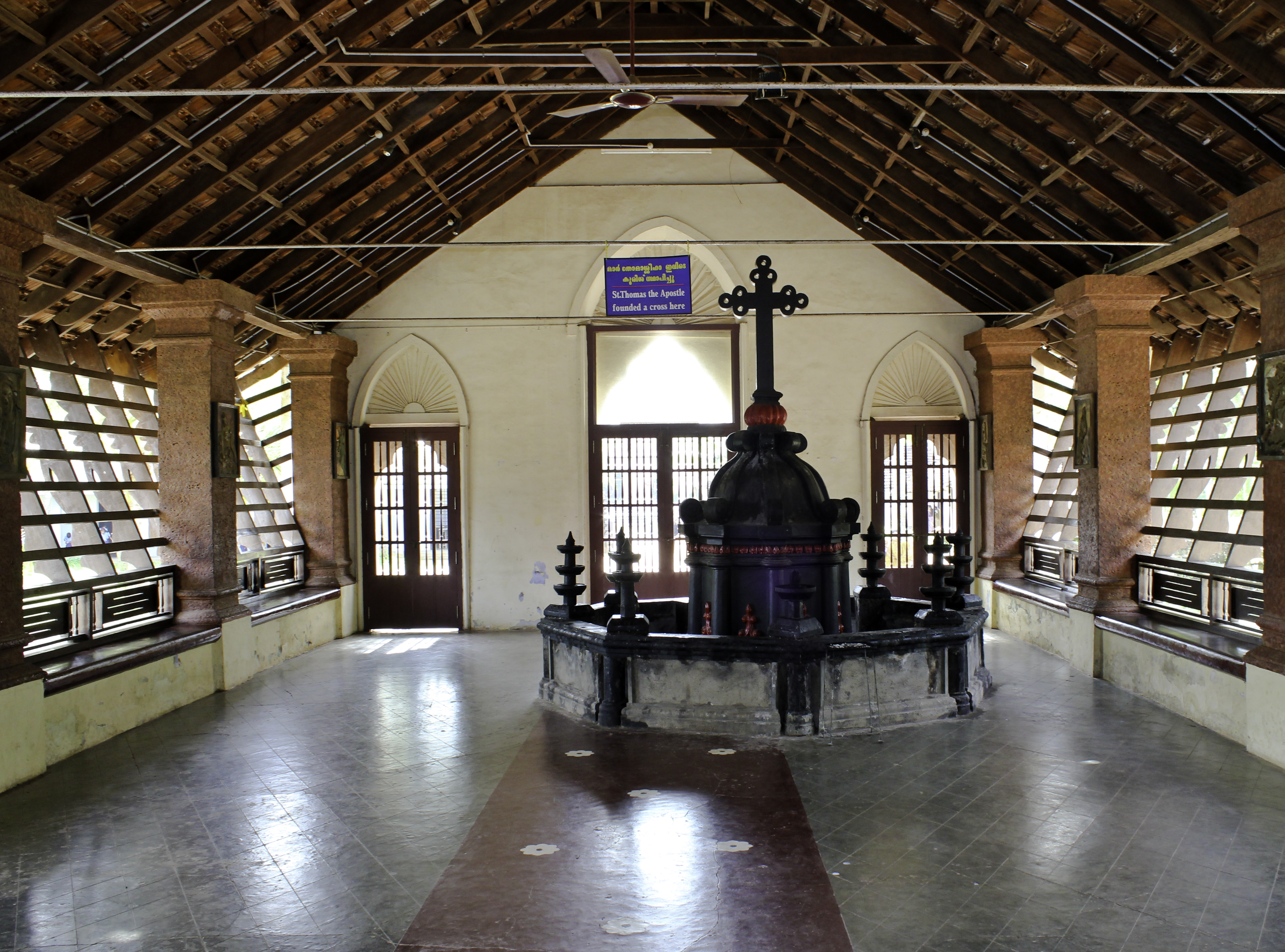 Shrine resembling the 7 1/2 churches established by St Thomas in Kerala